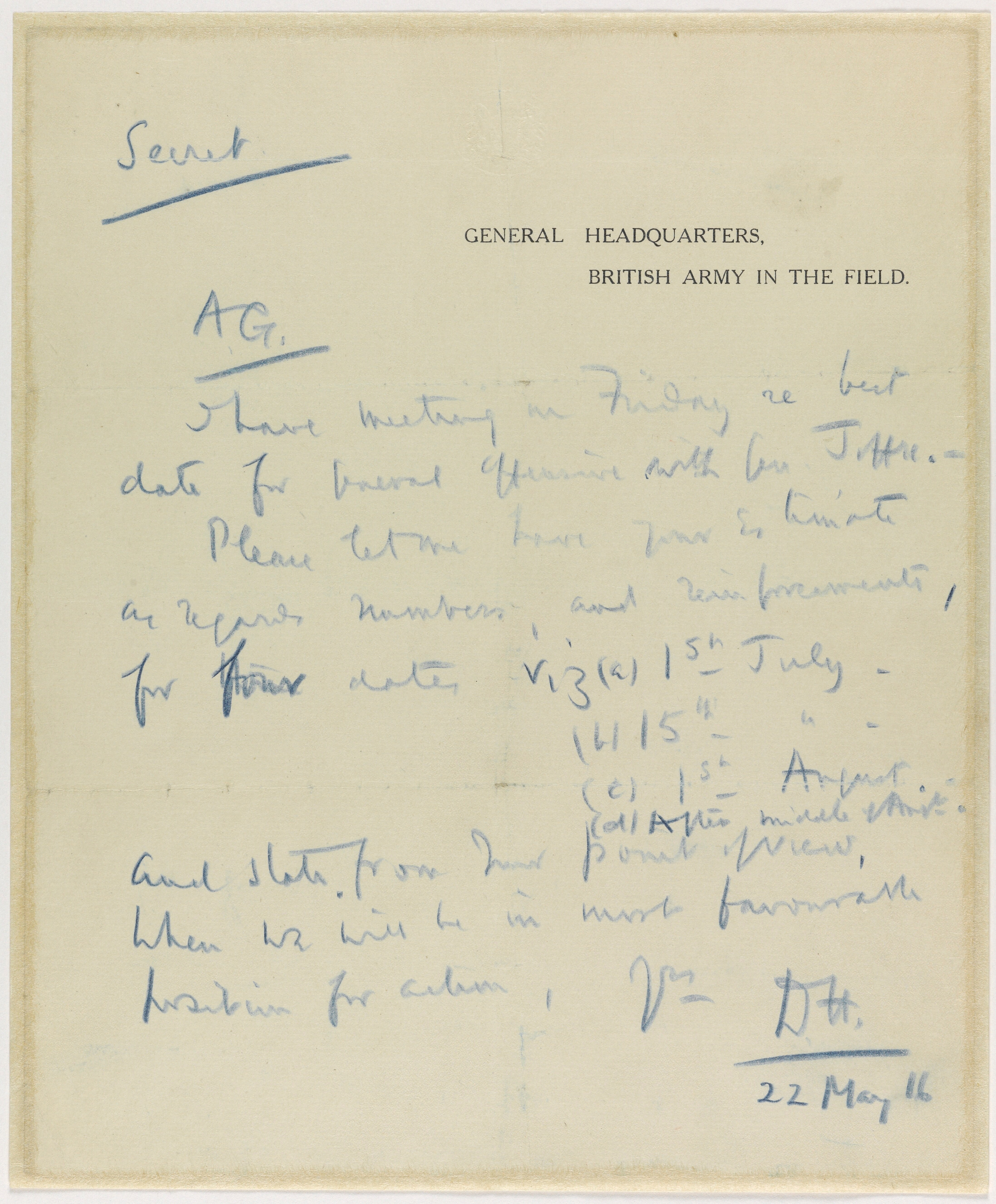 Memorandum from General Sir Douglas Haig, Commander in Chief of the British Expeditionary Force, to the Adjutant General, Lieutenant General Sir Nevil Macready, asking for his view on the most suitable day to begin the Somme offensive.